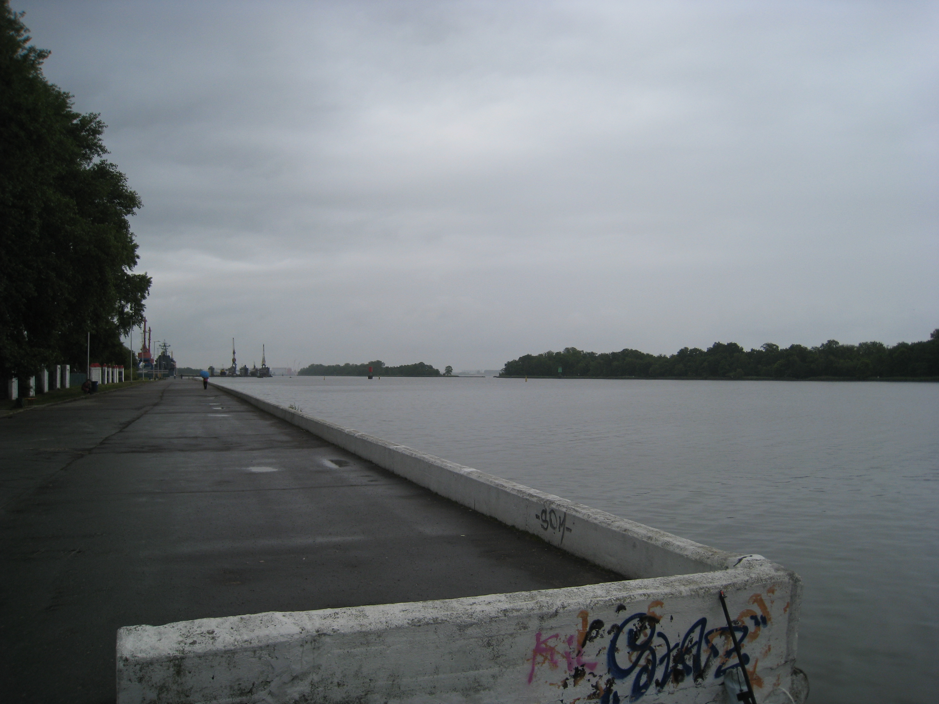 Kaliningrad sea channel and port in Svetly